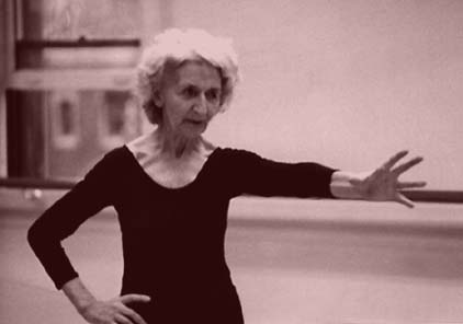 Irmgard Bartenieff originated the Certificate Program in Laban Movement Studies in 1965, and founded the Laban/Bartenieff Institute of Movement Studies in 1978.